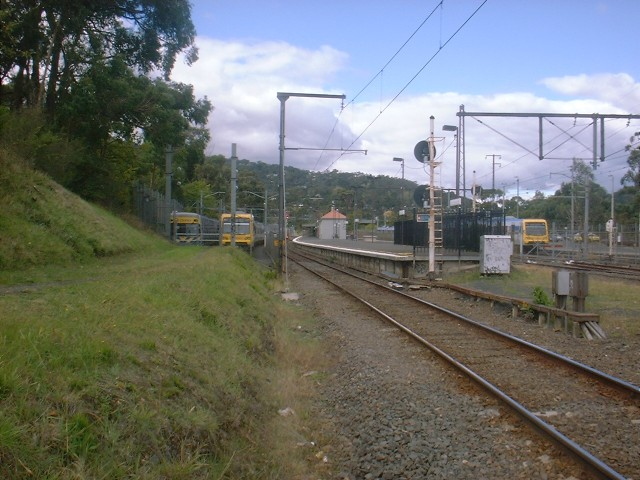 Picture taken myself on 22/4/2006. Anyone can use this image for any reason.